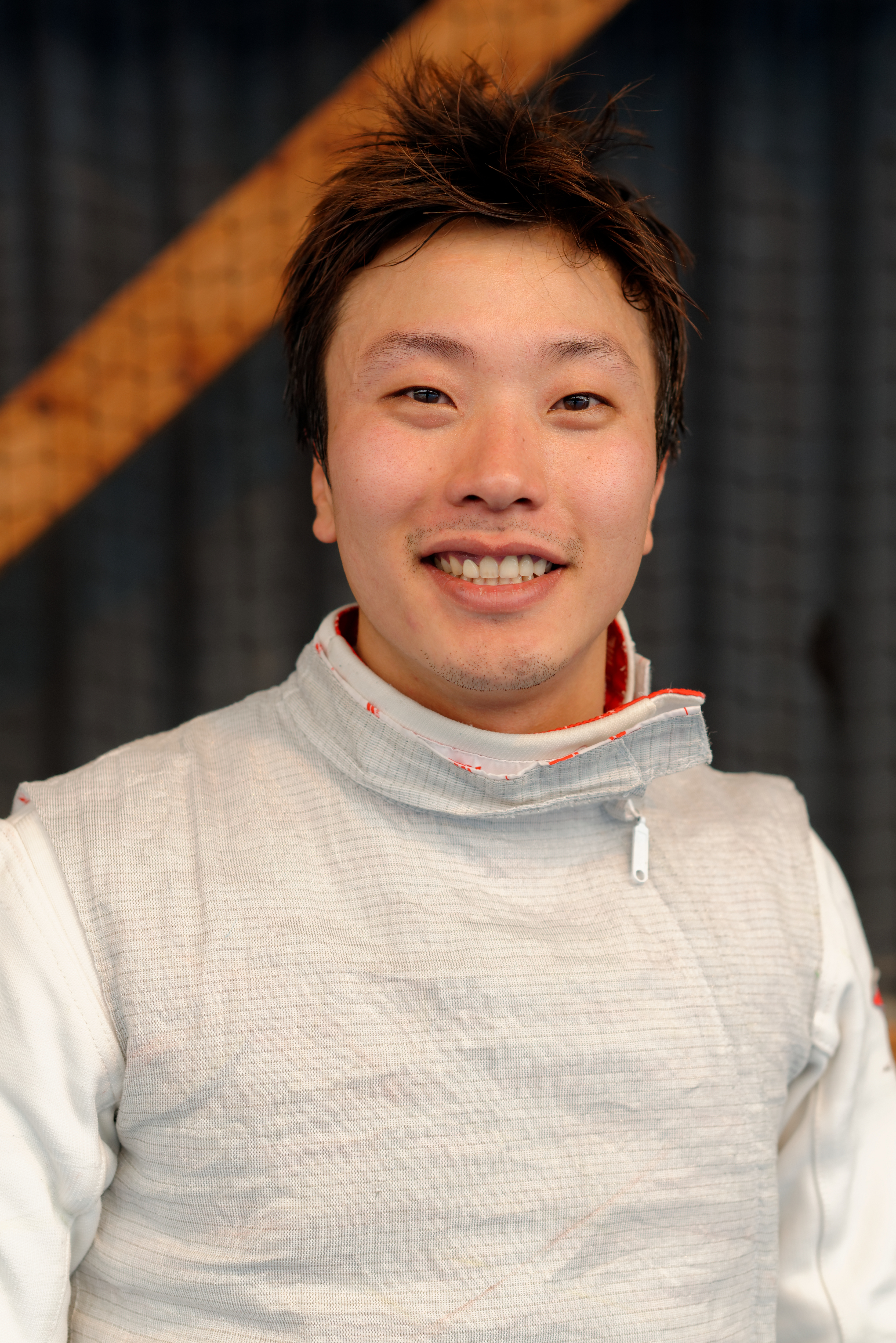 Foil fencer Choi Byung-Chul at the Challenge Revenu 2013 in Melun, France.